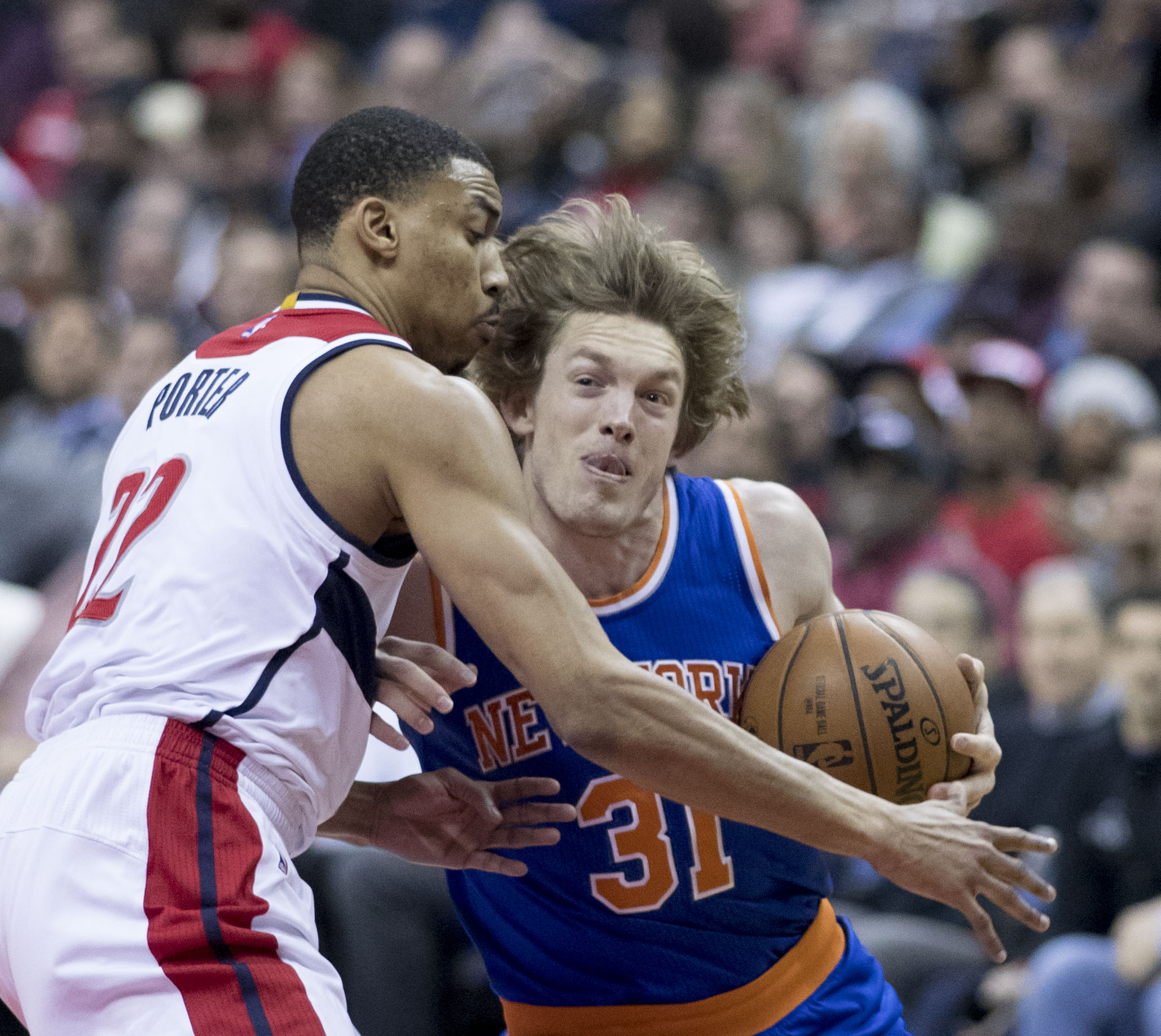 Knicks at Wizards 1/31/17